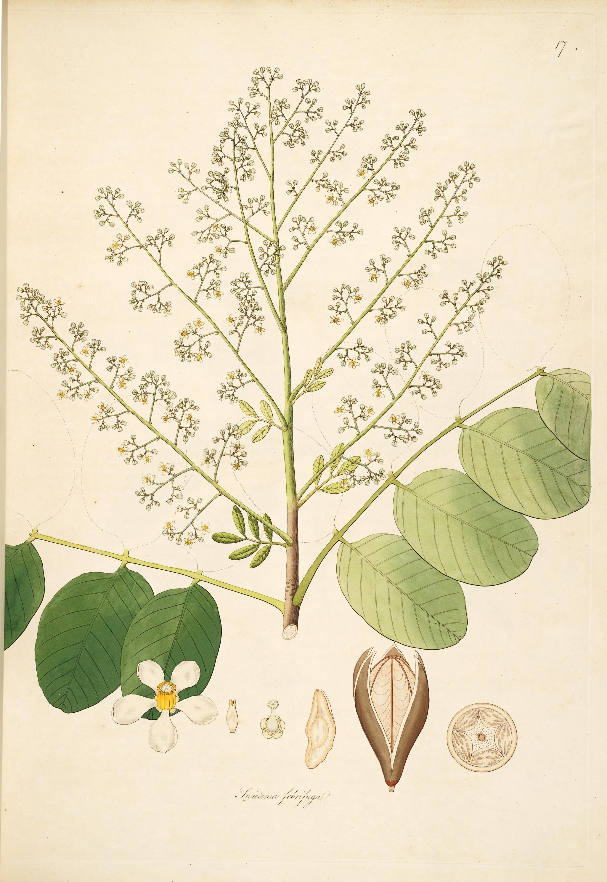 For this 1795 publication with detailed text description on flora in India, see William Roxburgh, Plants of the coast of Coromandel - Volume 1 Coromandel coast stretches from Tamil Nadu to Andhra Pradesh states of India The scientific botanical name is at the bottom of the illustration plate. This 18th century illustration qualifies for PD-Art license.